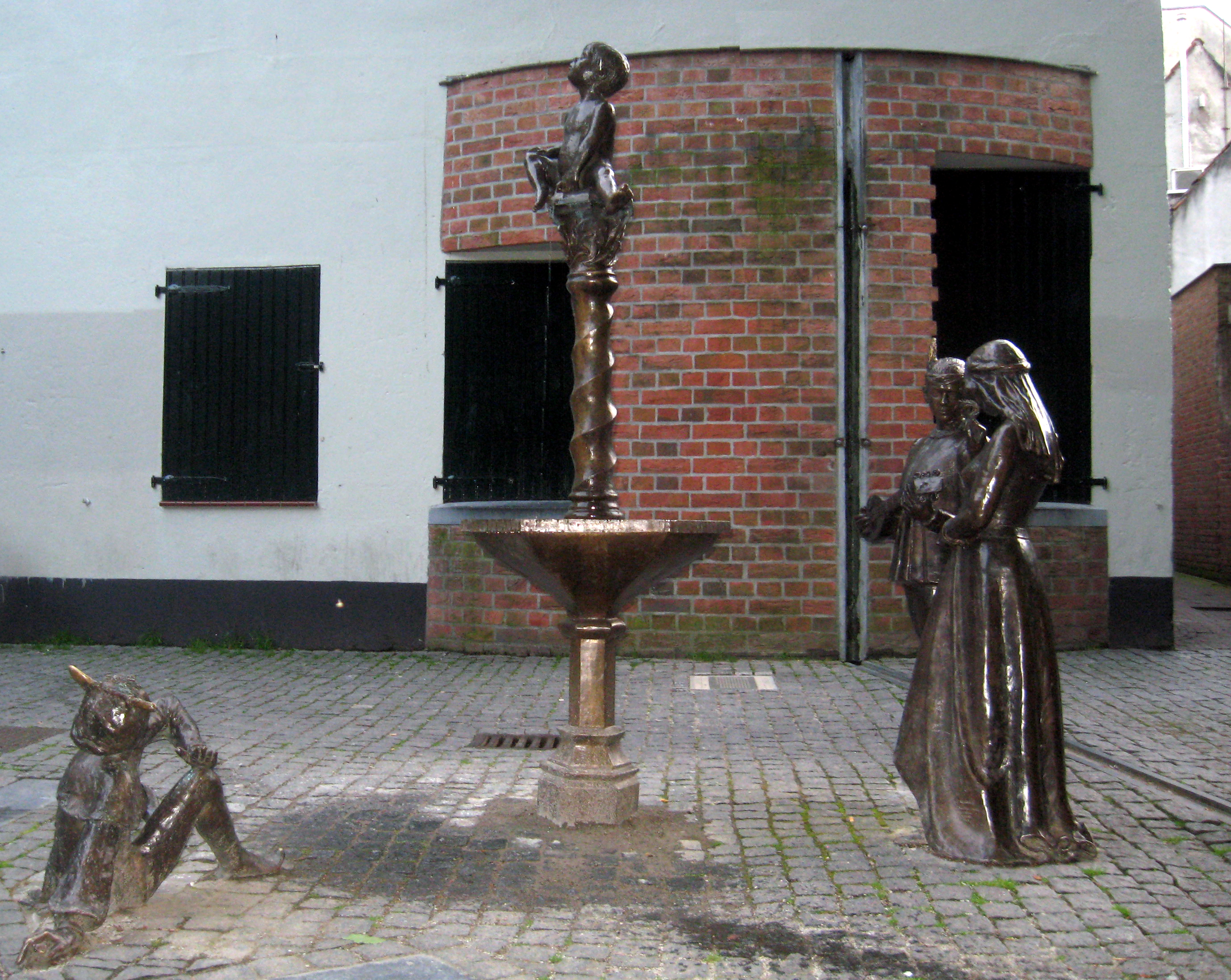 Dieske